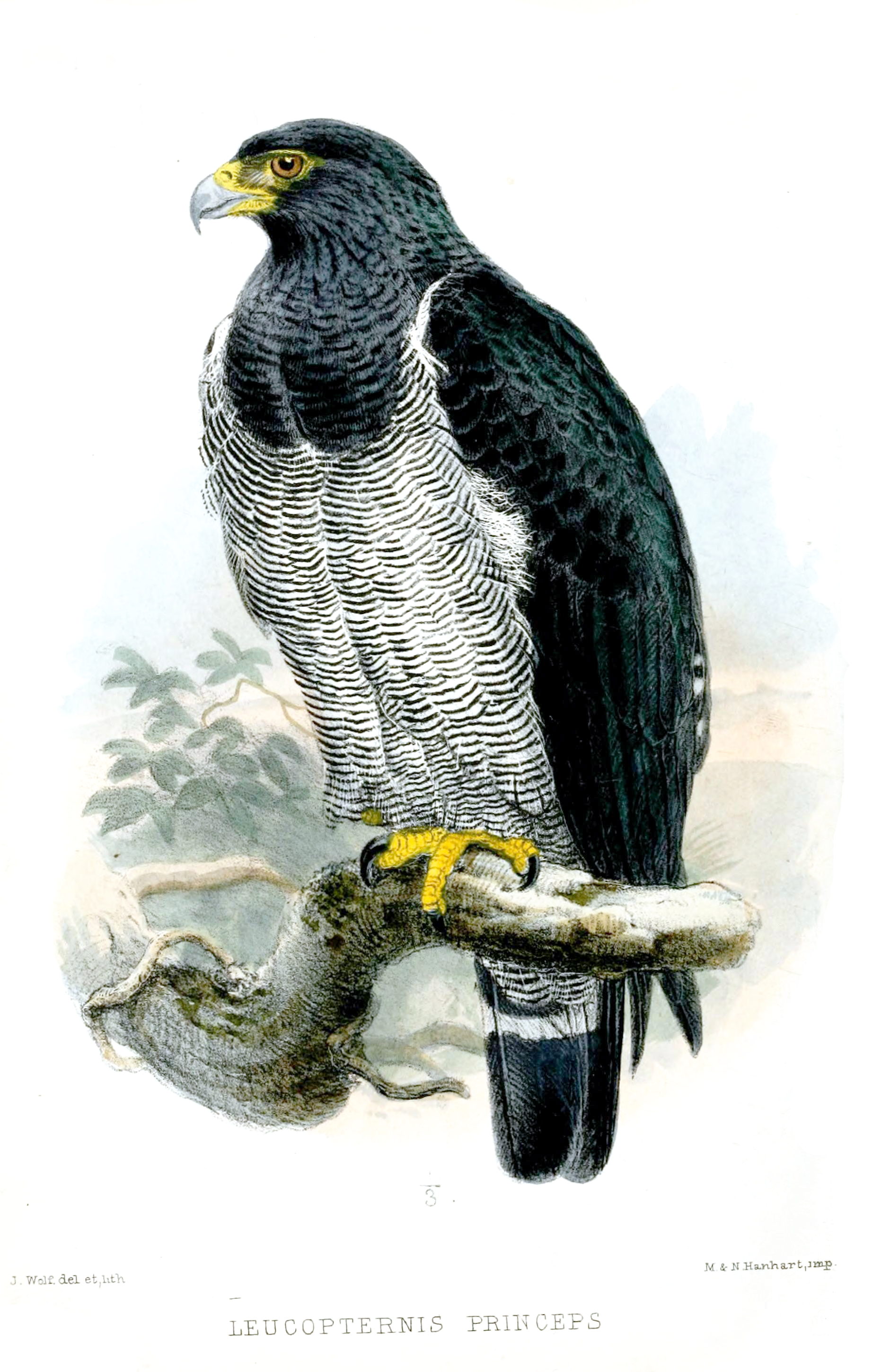 Barred Hawk, subadult